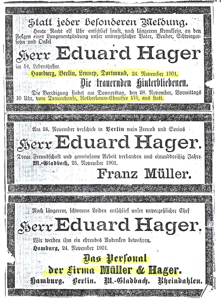 Death notice of Eduard Hager (1848-1901) from November 1901 in Hamburg